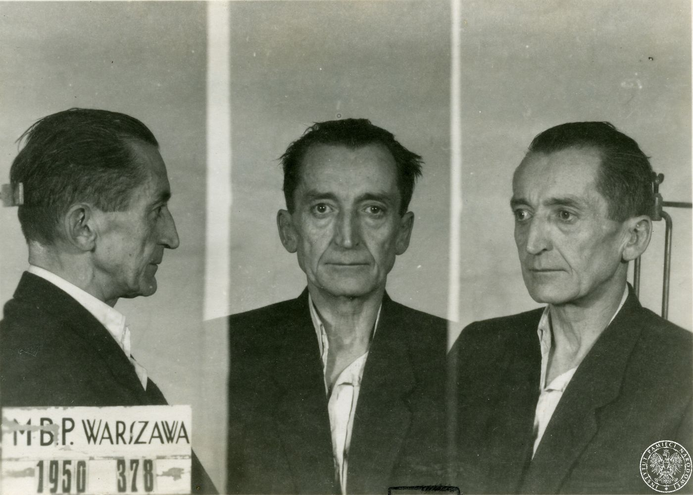 Emil August Fieldorf “Nil” (1895-1953) - Polish Brigadier General. He was Deputy Commander-in-Chief of the Home Army (Armia Krajowa) or AK, after the failure of the Warsaw Uprising. Arrested and executed by Communist authorities in Poland